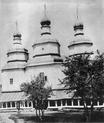 St. Mykola church in Vinnitsa Ukraine layout, scan from book 1905 "Wooden and stone churches".